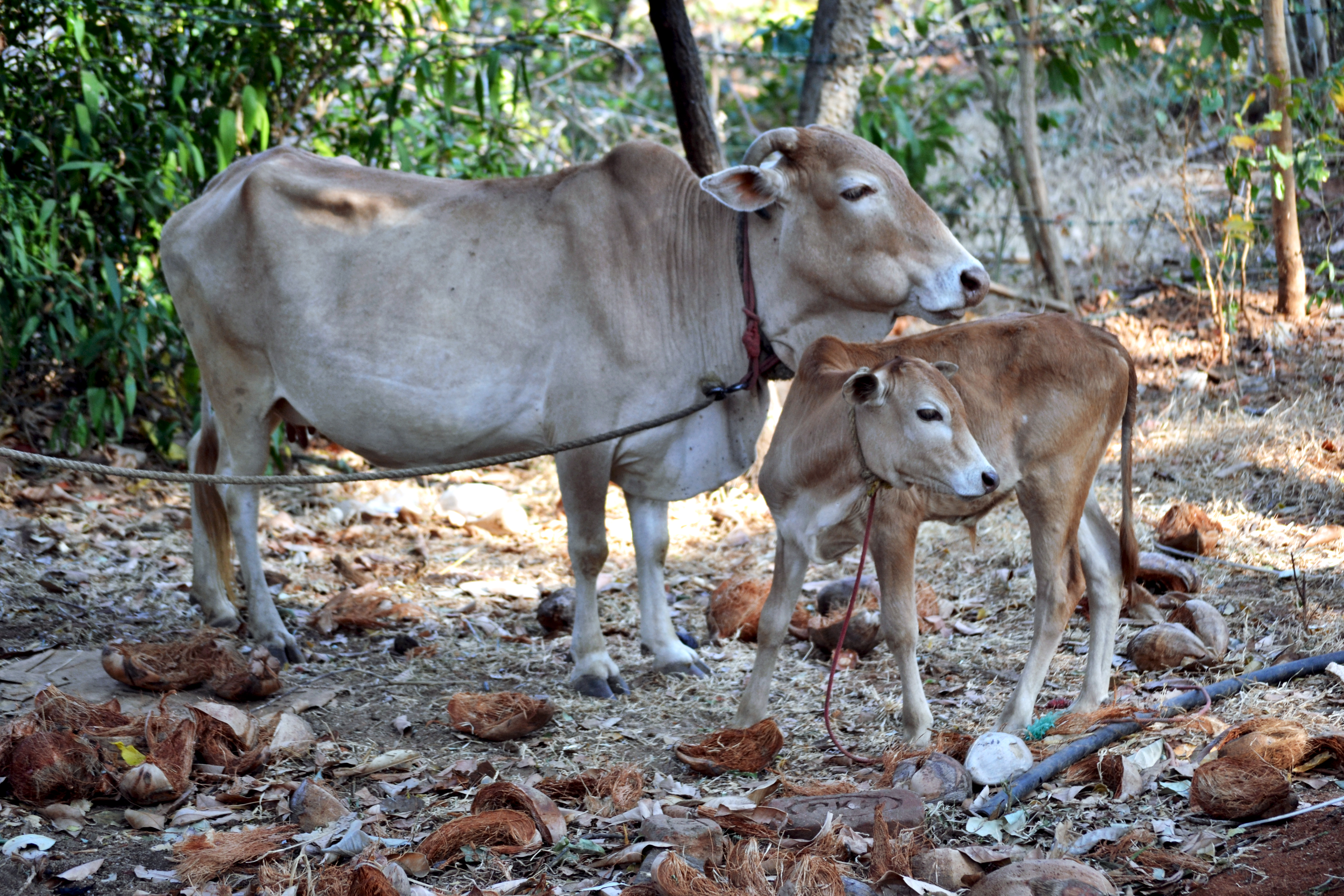 The Vechur cow is a rare breed of Bos indicus cattle named after the village Vechoor in Kottayam district of the state of Kerala in India. With an average length of 124 cm and height of 87 cm, it is the smallest cattle breed in the world according to the Guinness Book of Records, and is valued for the larger amount of milk it produces relative to the amount of food it requires. The Vechur animals were saved from extinction due to conservation efforts by Sosamma Iype, a Professor of Animal breeding and Genetics along with a team of her students. In 1989, a conservation unit was started. A Conservation trust was formed in 1998 to continue the work with farmer participation.